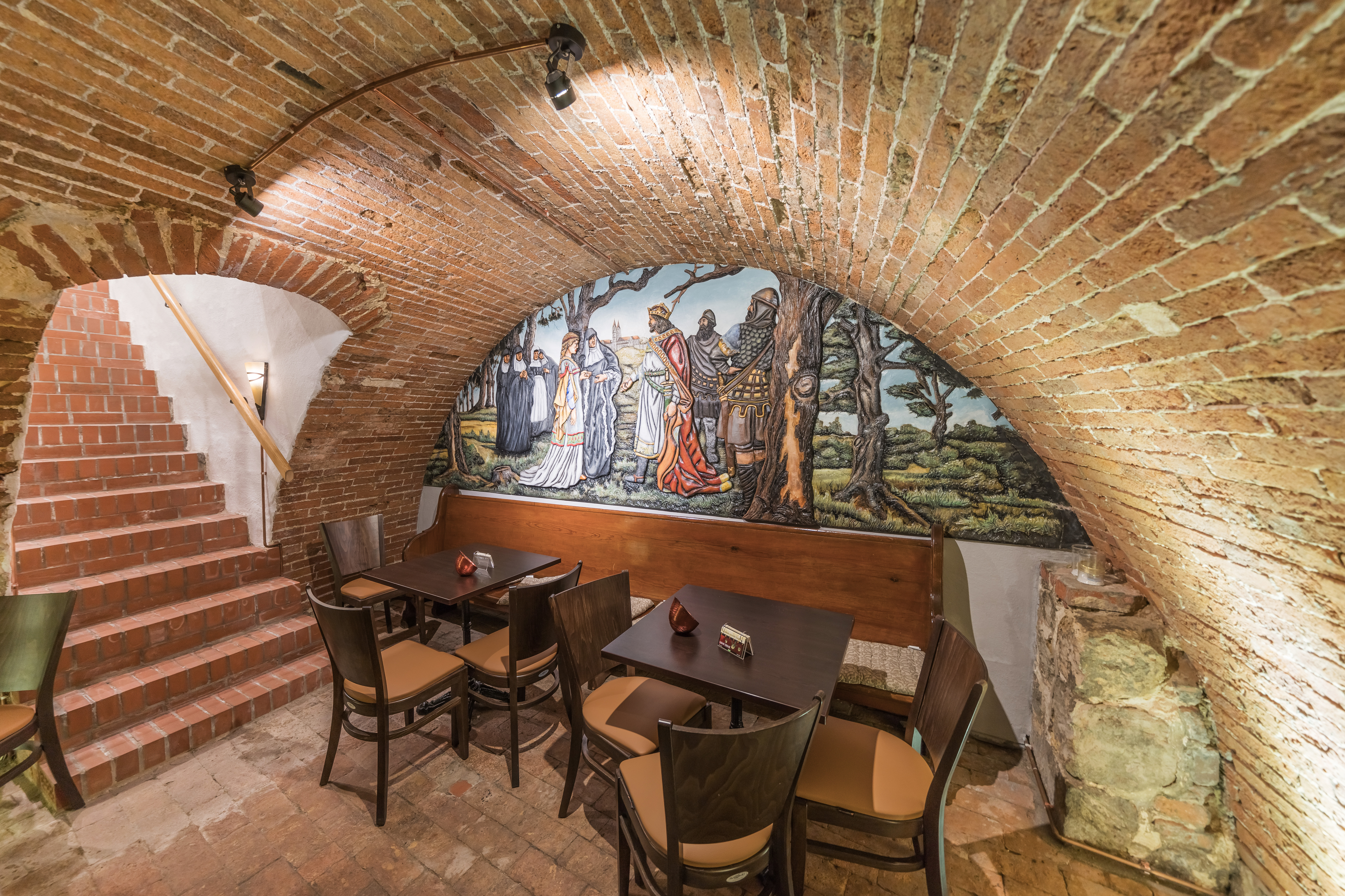 Old Town in Quedlinburg, Germany